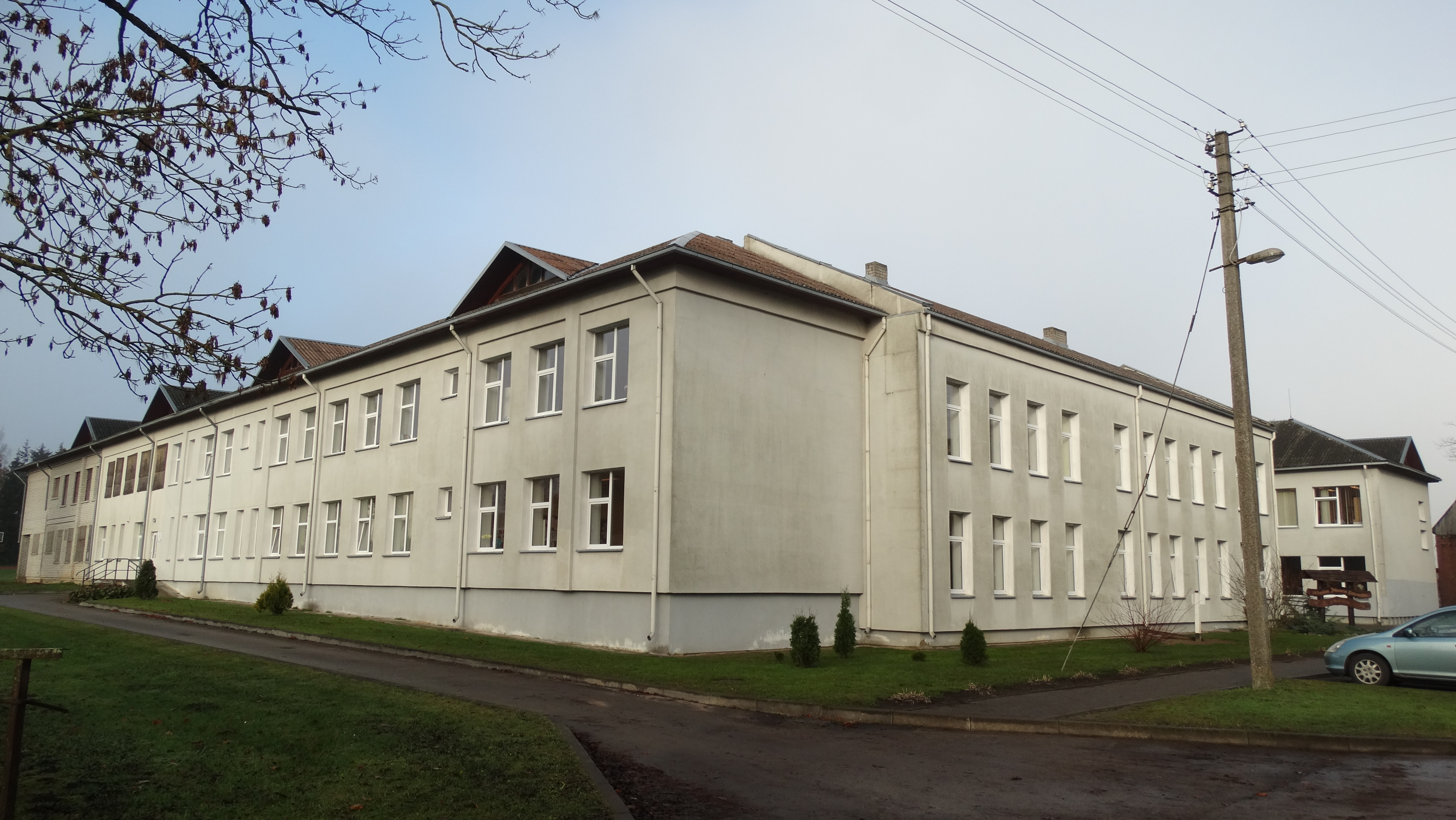 Gymnasium, Vilkyškiai, Pagėgiai Municipality, Lithuania